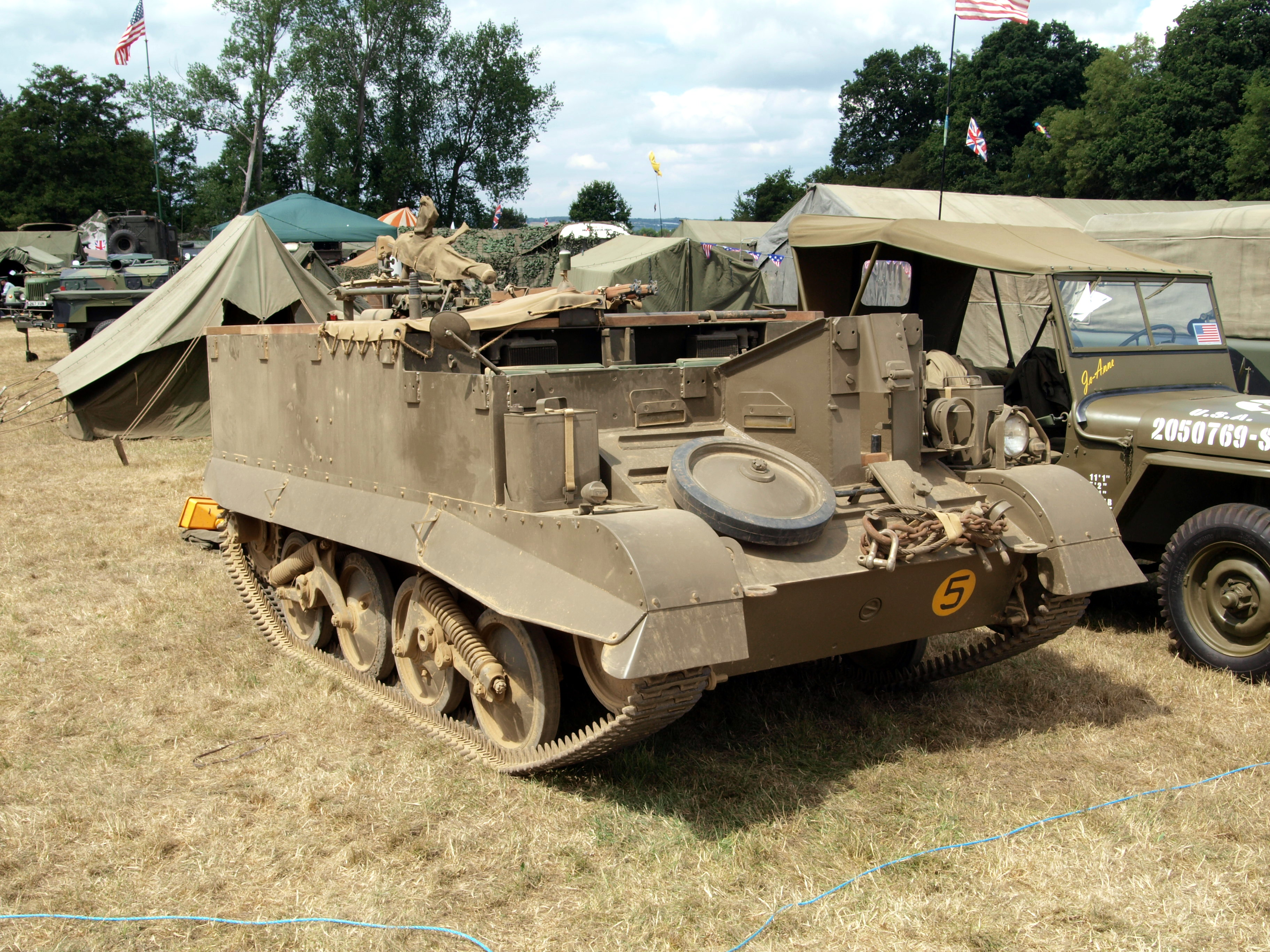 Universal carrier at W&P show